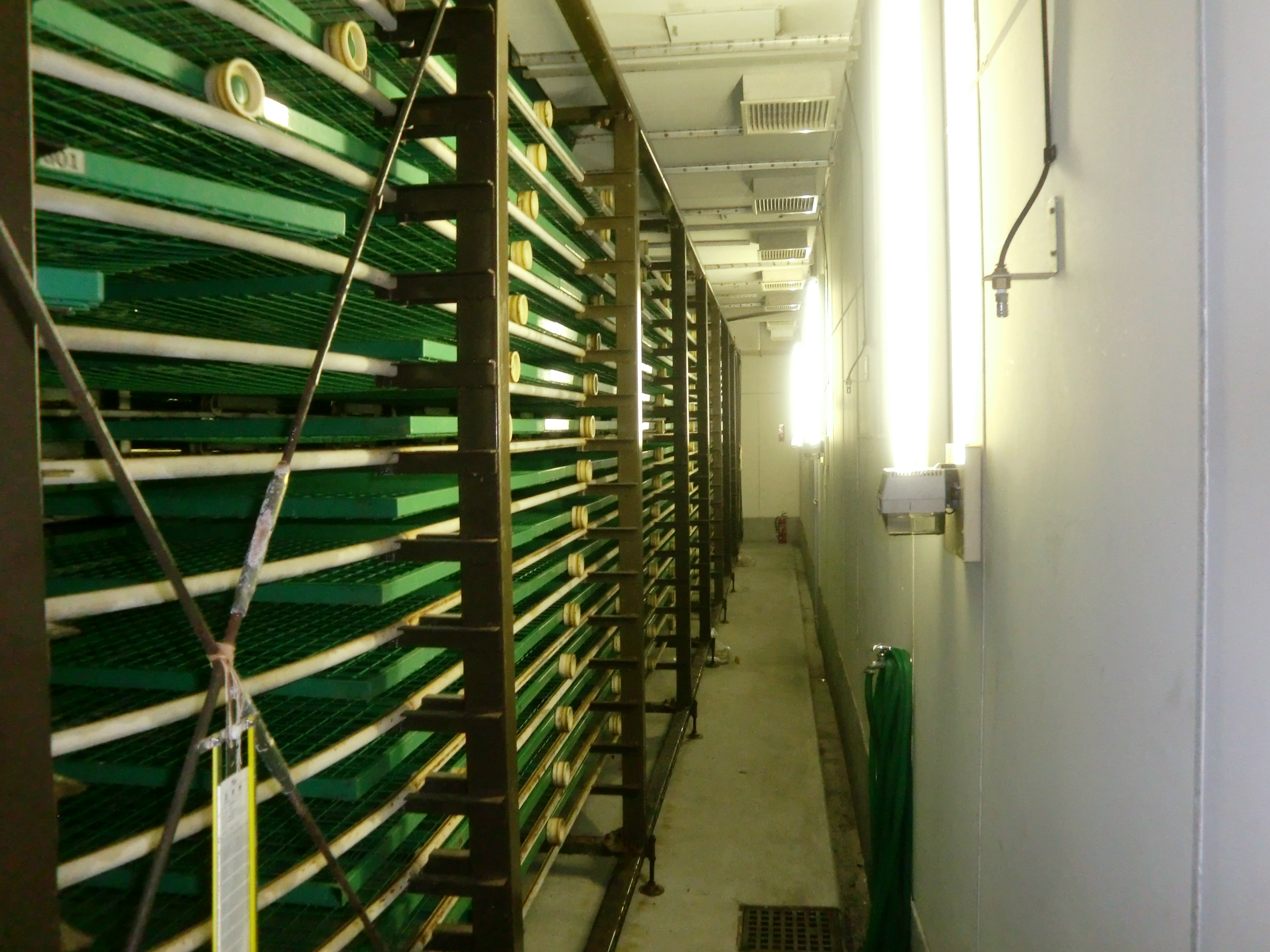 Equipment related to the breeding of silkworms (according to the file name).